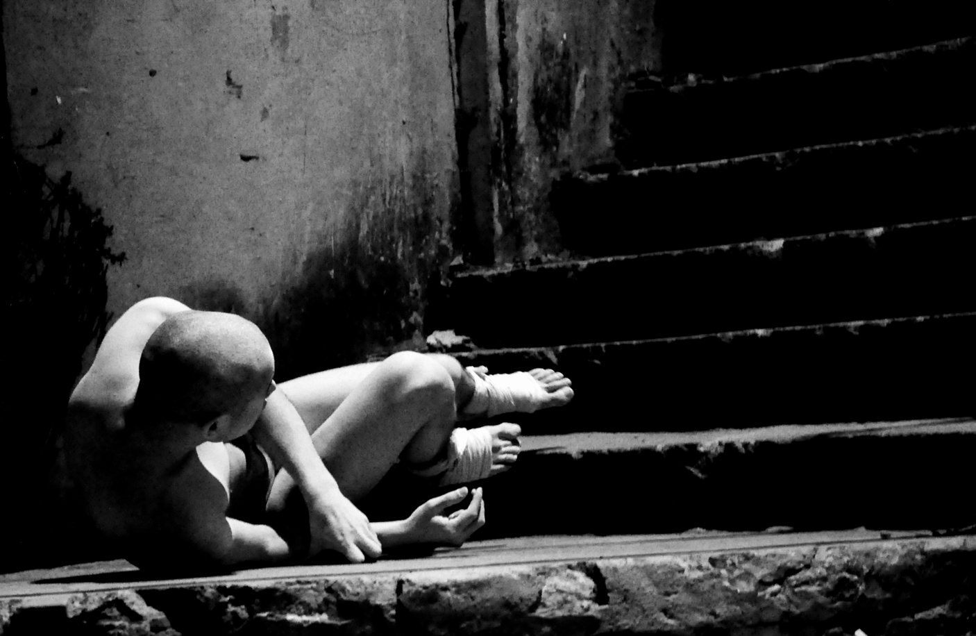 Butoh, Emerson Vidal